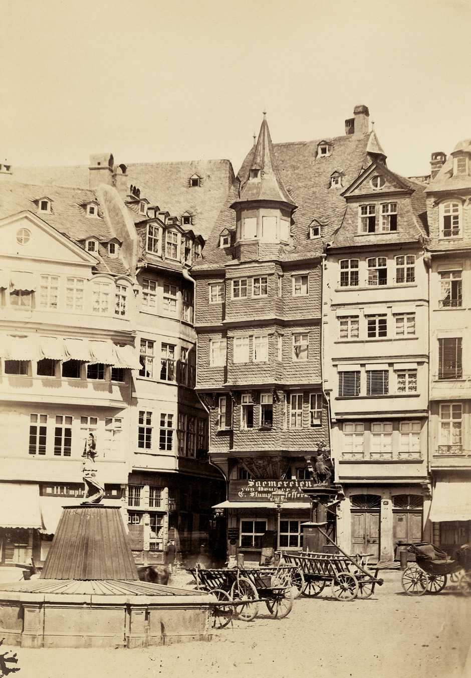 East side of the Römerberg, showing the entrance to the market, Frankfurt. 1859. Albumen print. 29 x 20,3 cm.